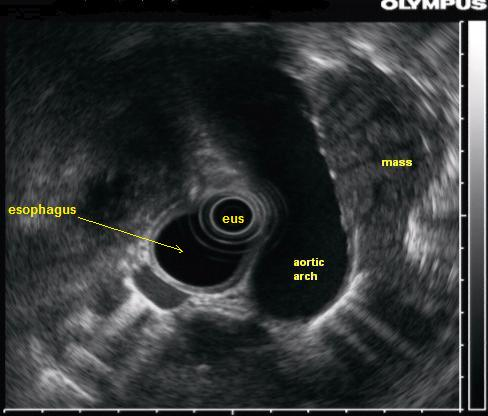 Shows an EUS image of lung cancer